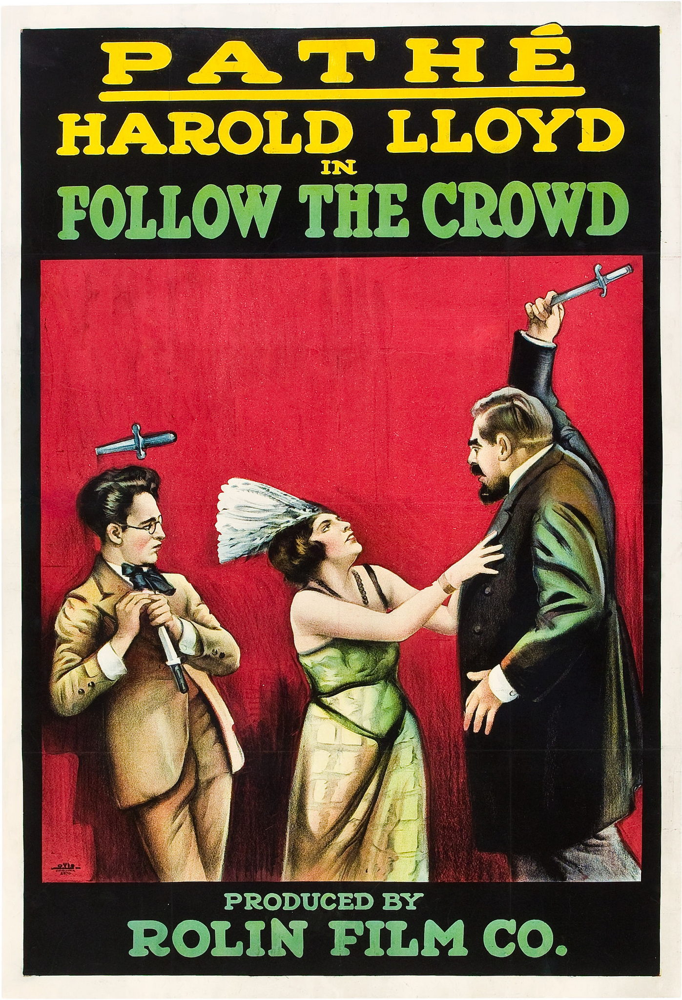 Follow the Crowd is a 1918 short comedy film with Harold Lloyd. This is a poster of that film.